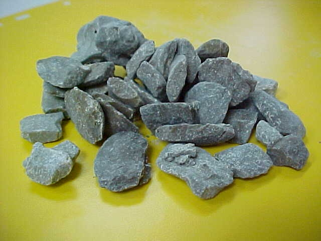 Photo of sintered dolostone.